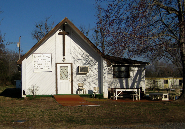 Tender Mercy Baptist Church, restored, now a community center in Park Hill, Oklahoma